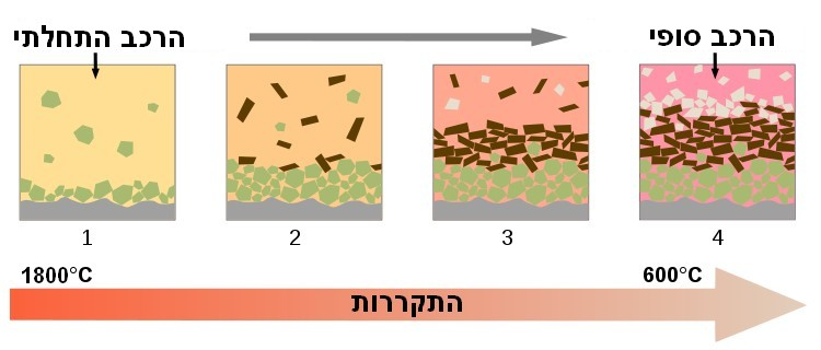 fractional crystallisation in a magma